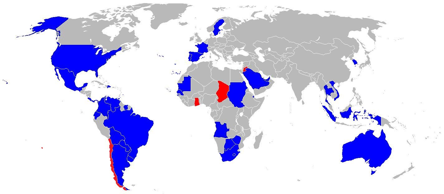 World operators of CASA C-212. Operators in blue, former operators in red.